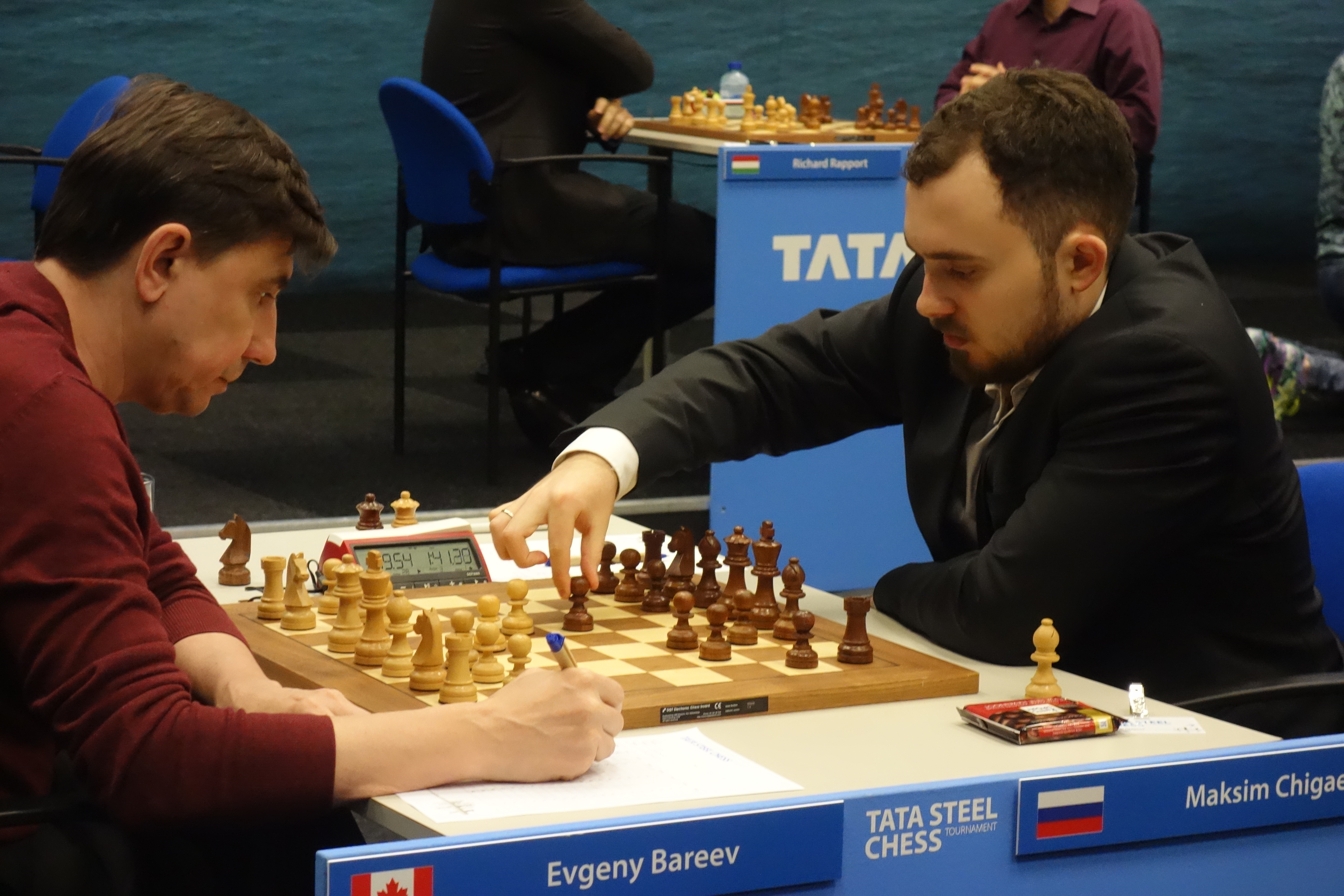 Tata Steel Chess Tournament 2019, Wijk aan Zee (the Netherlands), 13 Jan. 2019